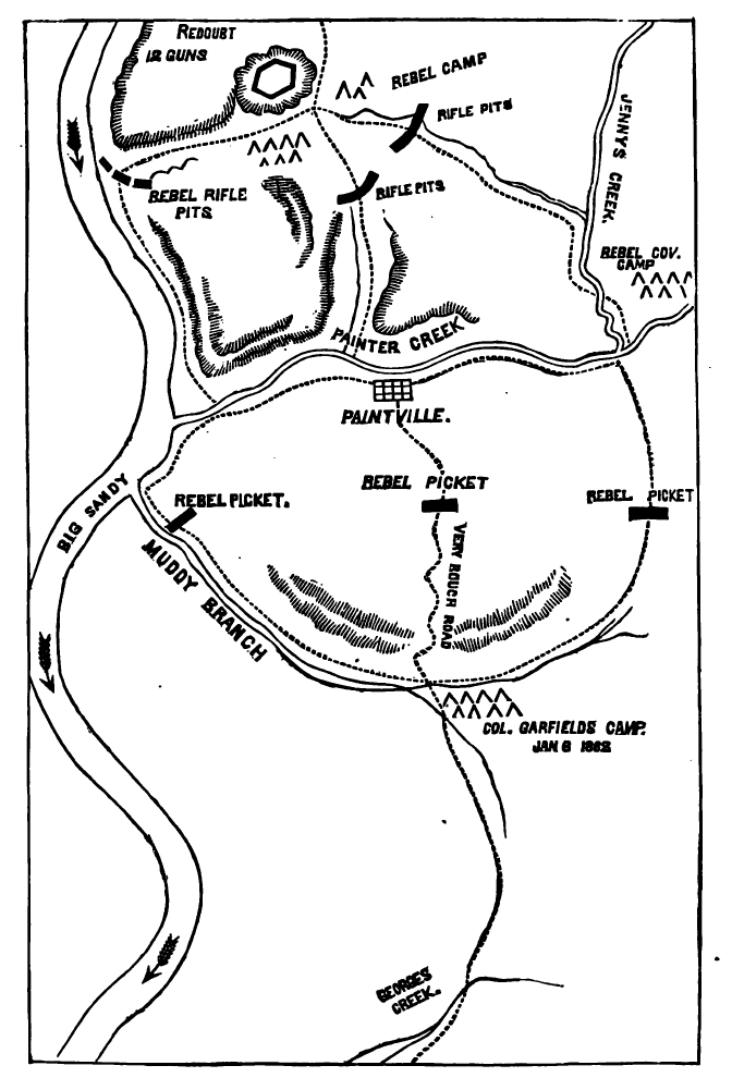 Battle of Middle Creek - map of Paintsville, Kentucky. The map is drawn from the point of view of Garfield arriving at Paintsville. The south is up, West is right.